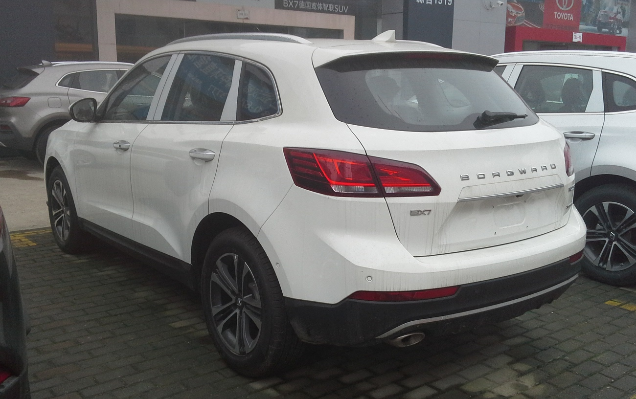 Borgward BX7 photographed in Wuhan, Hubei province, China.